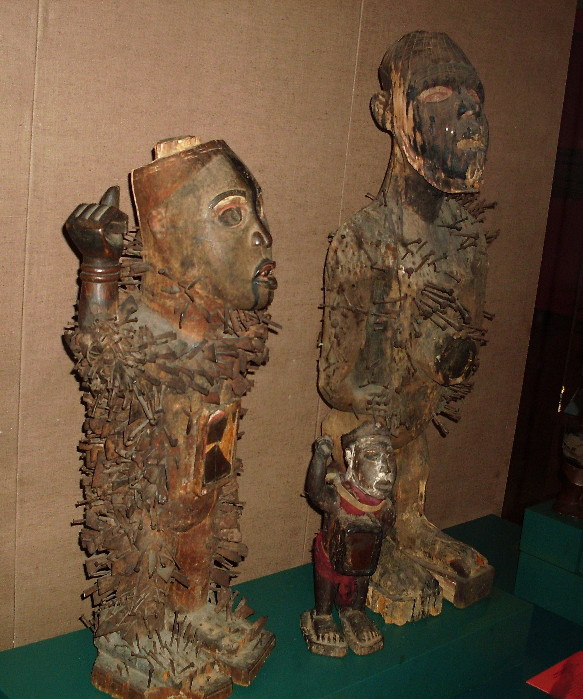 Nkisi Nkondi statues (19th Century),Field Museum of Natural History, Chicago. These statues are part of the Bakongo culture of the Africans. A naked human or an animal figure is carved in wood and nails, iron wedges or blades are hammered into the figures. Nkisi nkondi figures are often used as a contract of peace at the end of a war or a dispute and a nail driven into the figure represents peace in such cases. Some figures have a cavity carved into the abdomen which is then filled with food or medicinal substances and the cavity sealed with a mirror. Nkisi Nkondi statues are believed to have magical powers, especially with regard to healing of diseases.